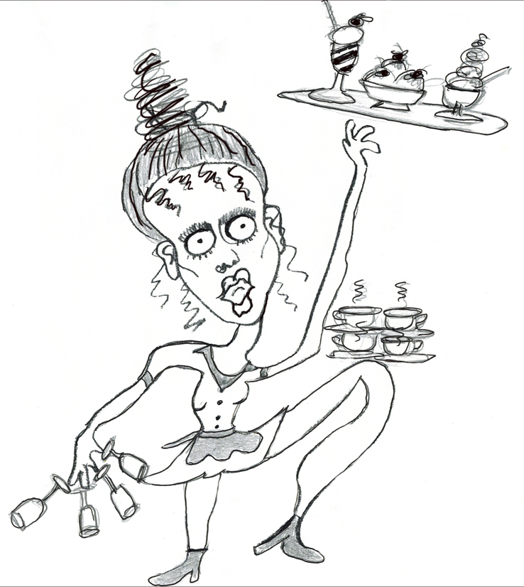 An early sketch by Matuschka from her early days woking as a waitress.